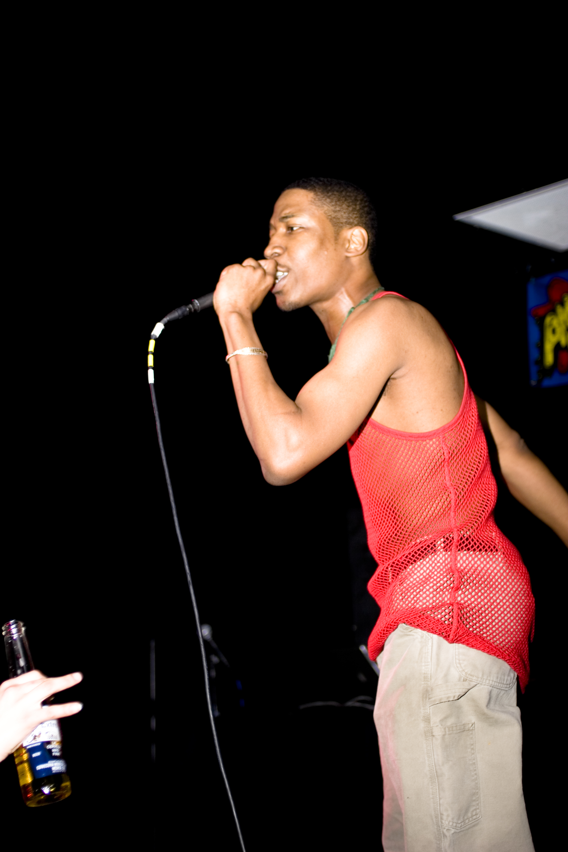 Count Bass D performing at an Amoeba Music store on February 25, 2007 in San Francisco, California.